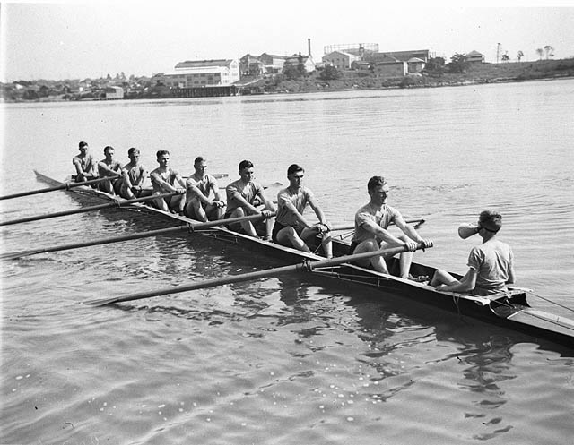 Students of Saint Ignatius' College, Riverview rowing circa 1932.